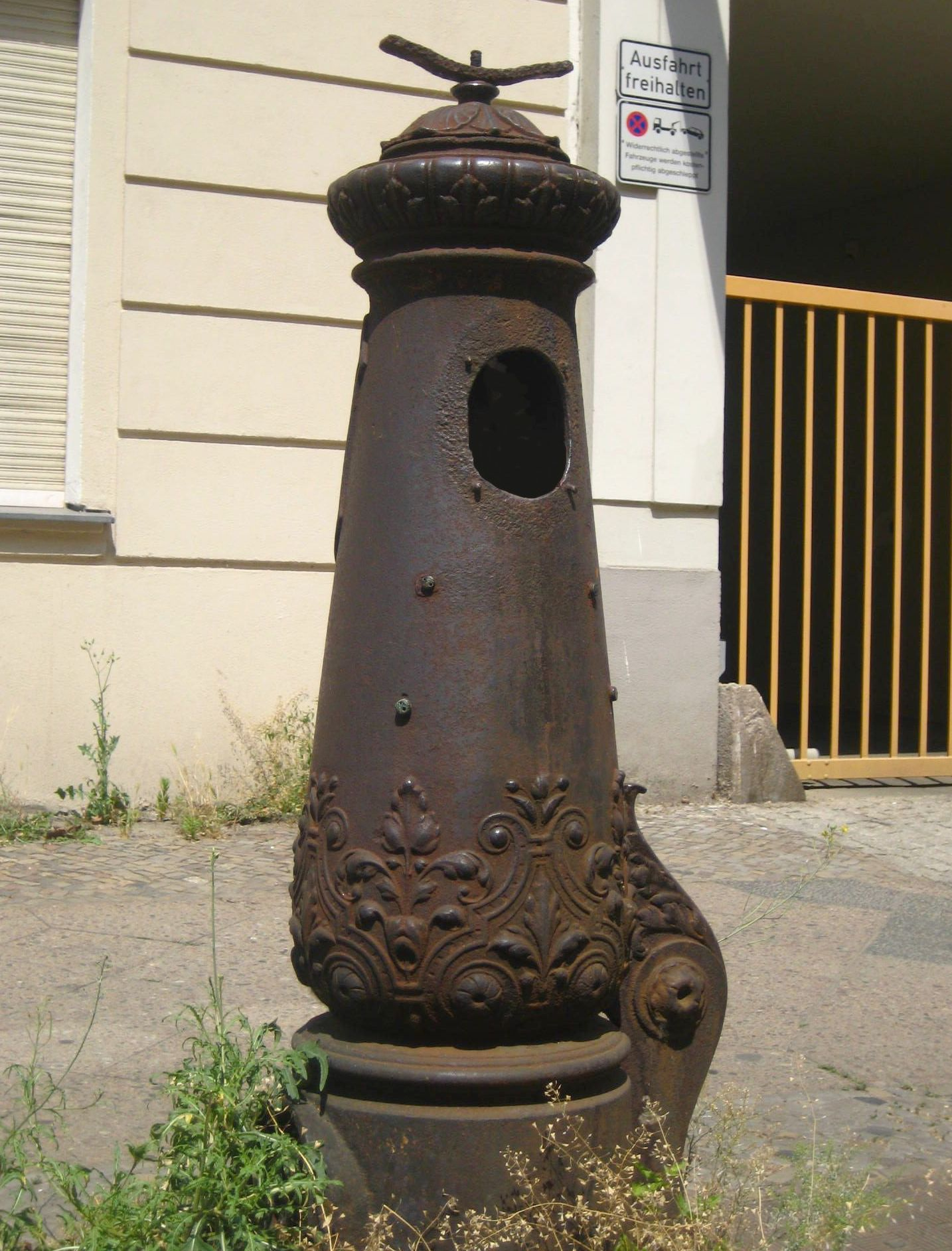 Old water pump/hydrant on Wöhlertstraße (in front of house number 18) in Berlin-Mitte. It dates back to the time period between 1875 and 1892. The fountain has been designaed as a historic landmark.